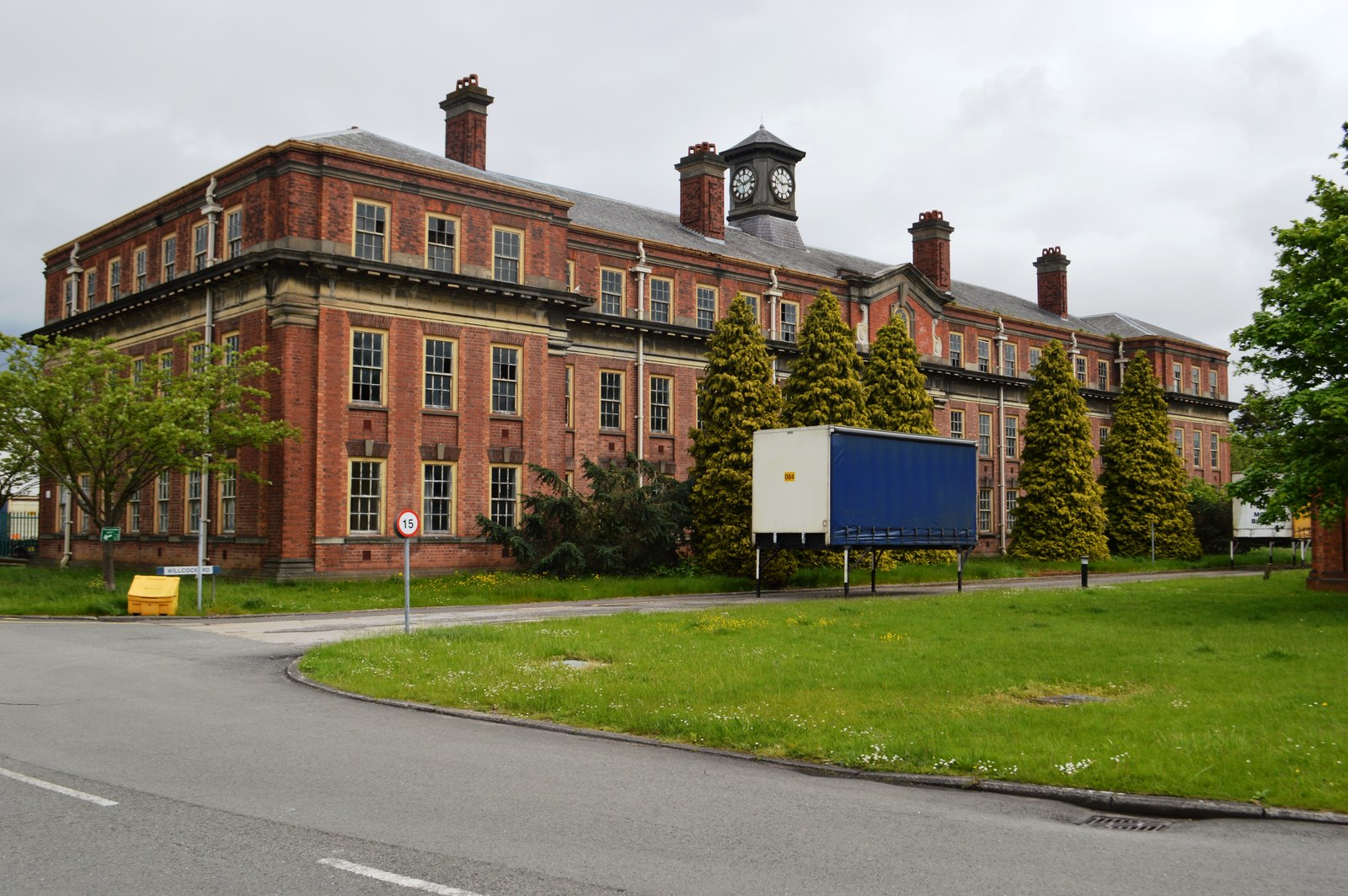 Photograph of the Office Block, Branston Depot, Staffordshire, England